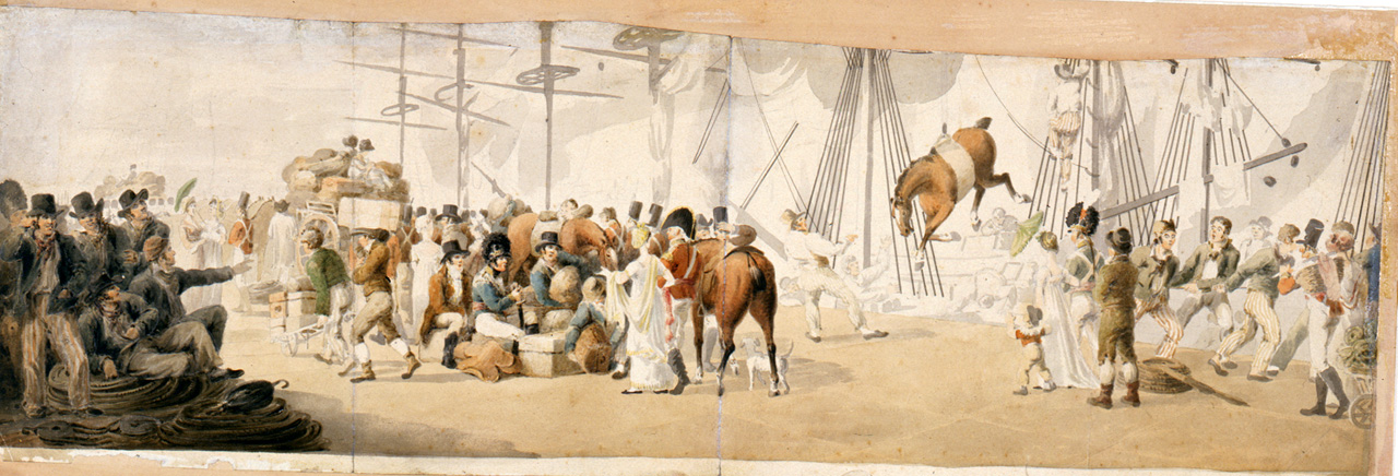 Embarking Troops and Horses in Margate; watercolour